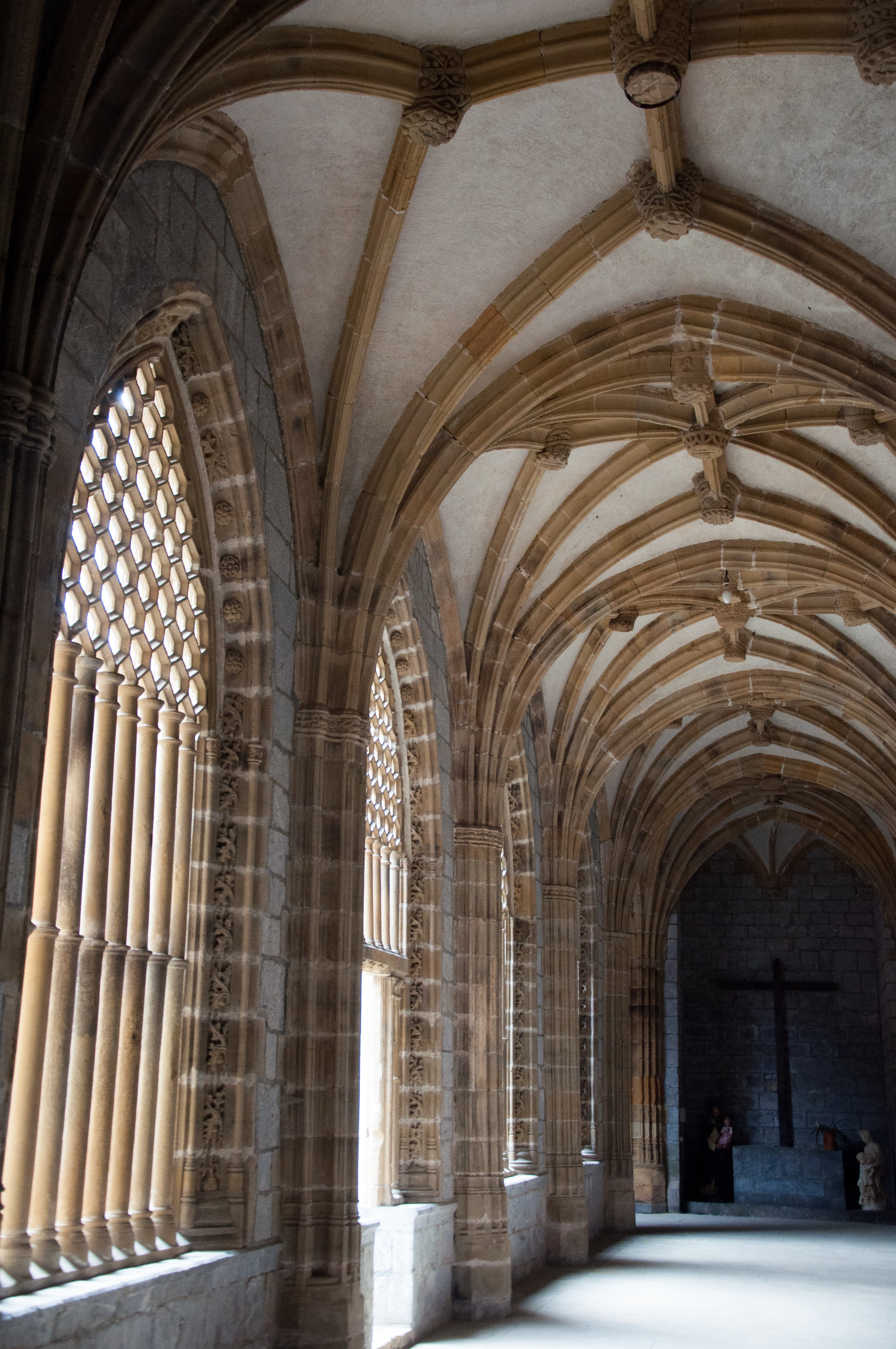 Debako XV. mendeko Santa Maria eliza gotikoaren klaustroa.